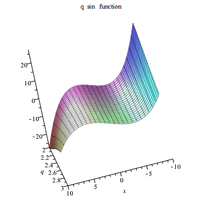 qsin function 3D